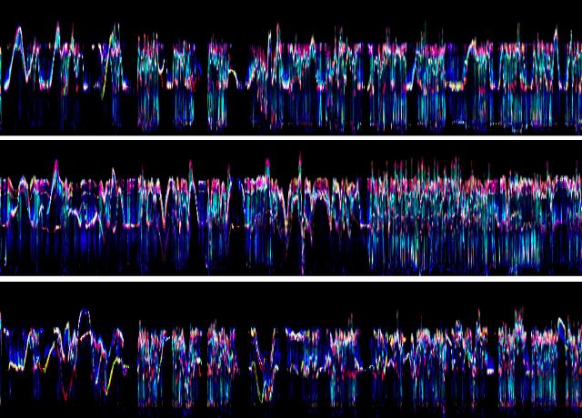 Three dancers were asked to move freely to music for 5 minutes. Motiongrams were created from video recordings of each of the dancers, to study similarities and differences between their performances.